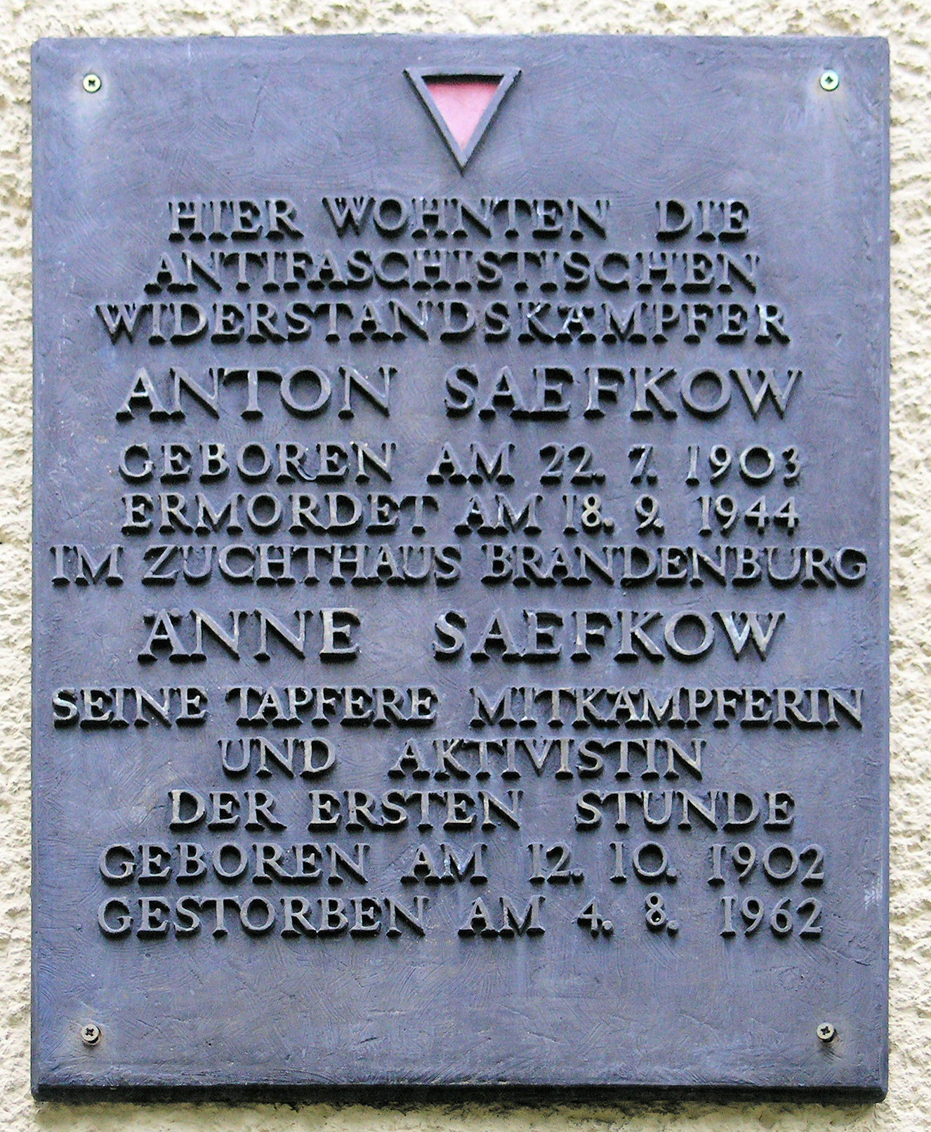 Memorial plaque, Anton Saefkow and Änne Saefkow, Trelleborger Straße 26, Berlin-Pankow, Germany Koordinate:52°33′23″N 13°25′7″E / 52.55639°N 13.41861°E